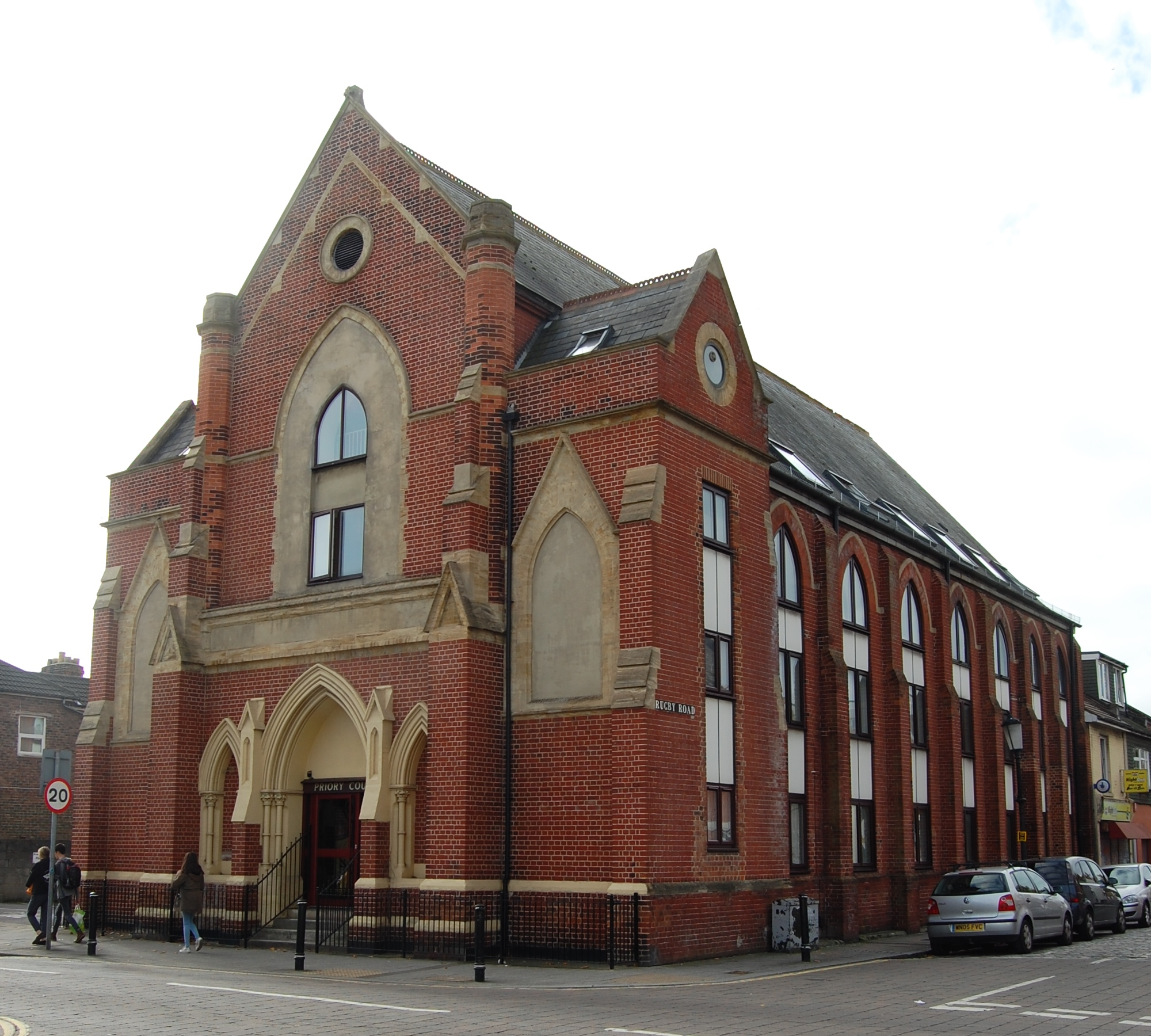 Former Fawcett Road United Methodist Church, Fawcett Road, Southsea, City of Portsmouth, England. Built in 1892 as a Bible Christian Methodist chapel; closed on 26 August 1984 and converted into flats with the name Priory Court in 1985–86.